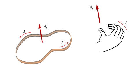 Definição do momento magnético de uma espira.